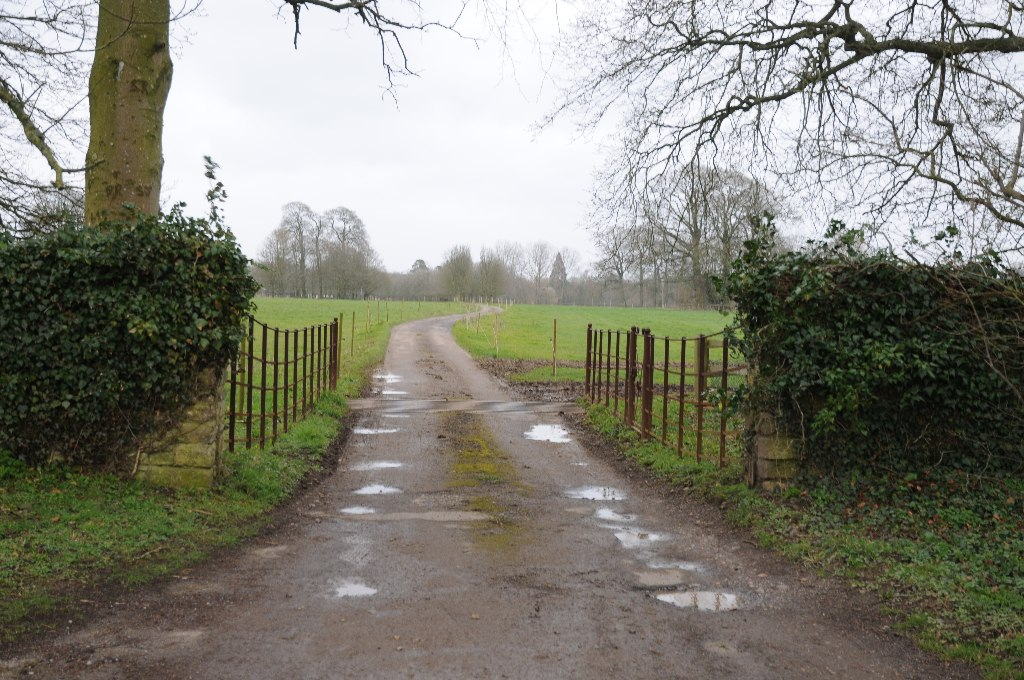 Entrance and drive to Cole Park